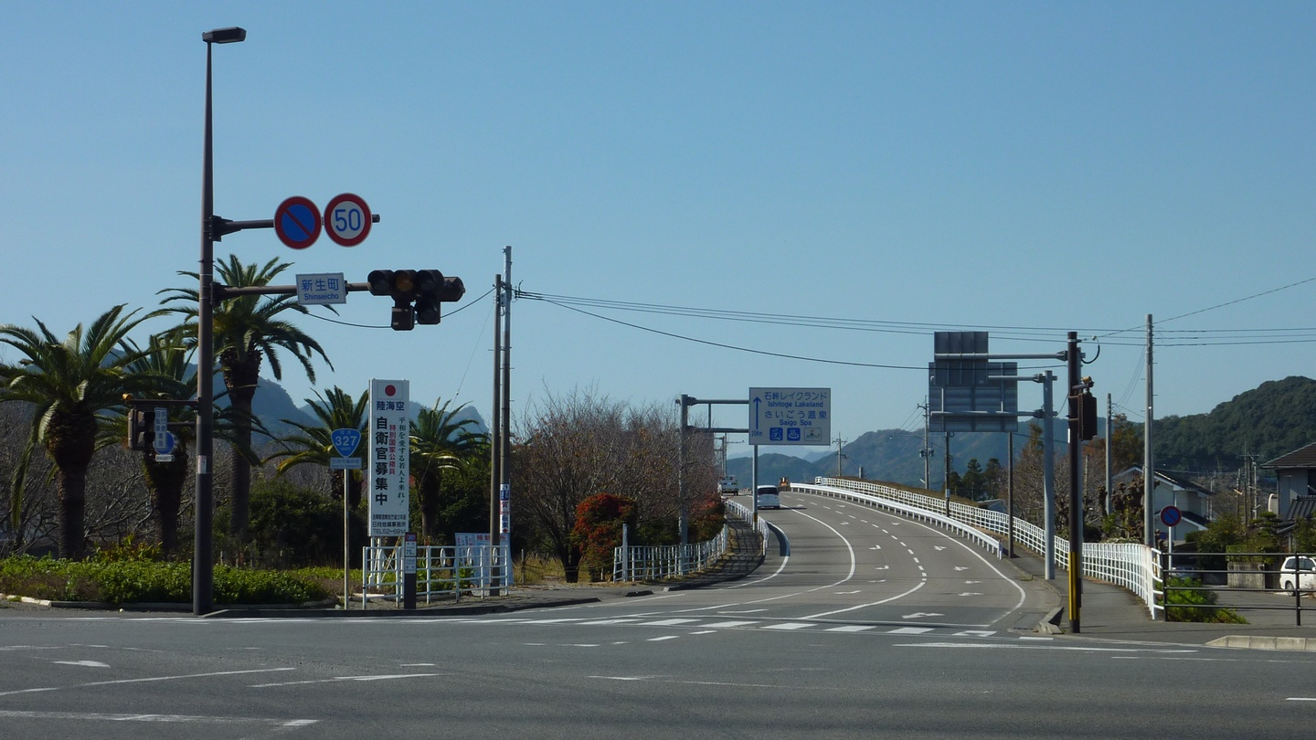 The National Route 327 (Hyuga City, Miyazaki Prefecture, Japan).